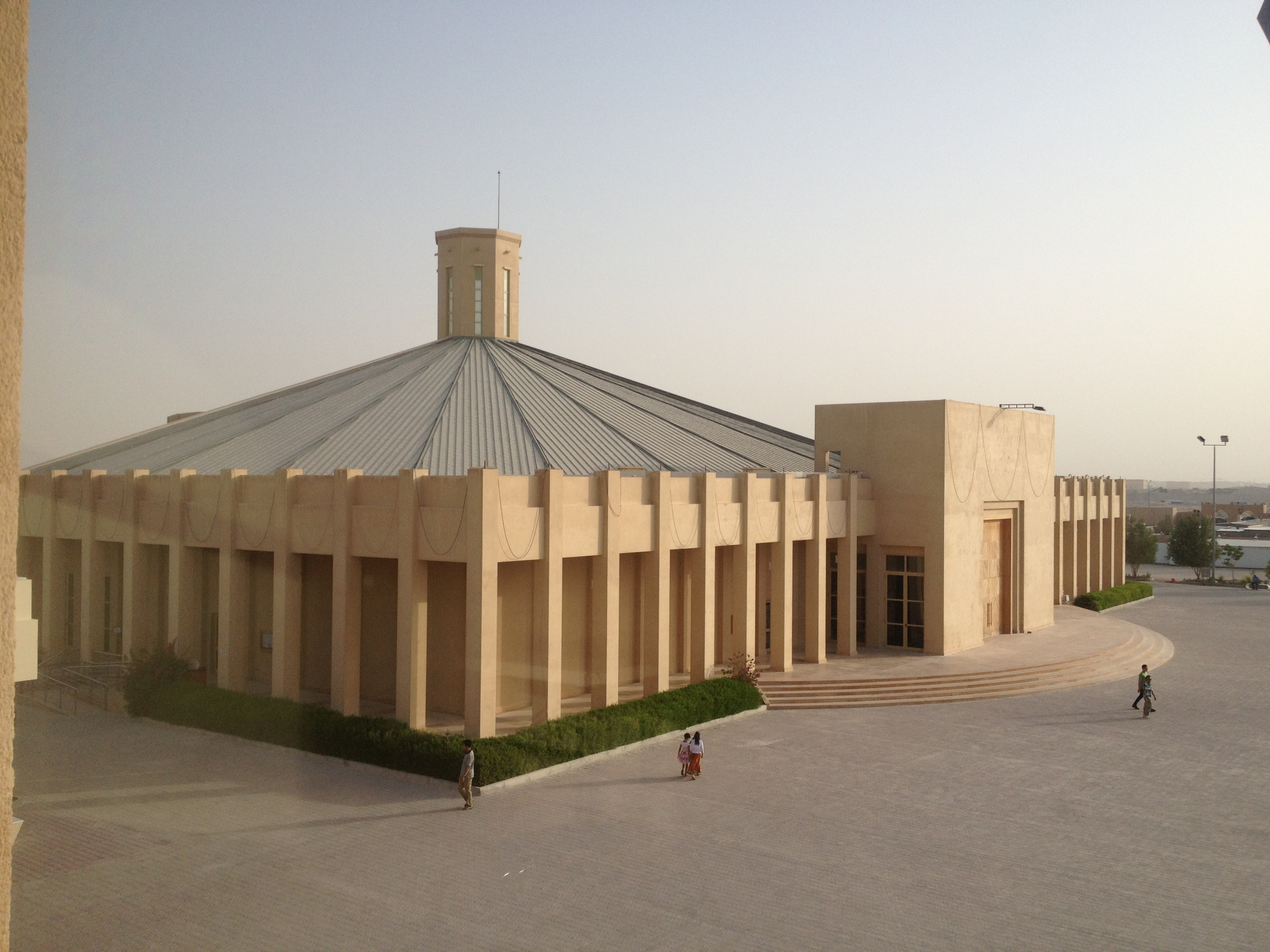 Front Facade of the Church of Our Lady of the Rosary in Doha, Qatar